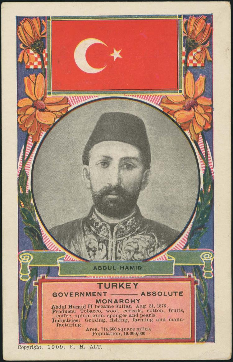 Abdul Hamid. Turkey Government Absolute Monarchy